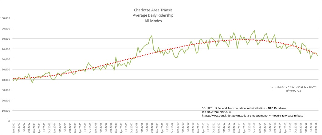 Charlotte Area Transit Average Daily Ridership All Modes, 2002-2016 Other information SOURCE: US Federal Transportation Adminsitration - NTD Database Jan 2002 thru Nov 2016